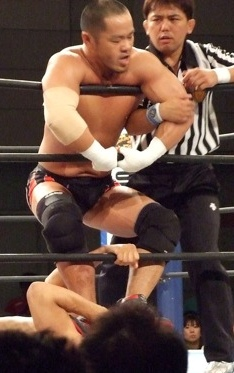 Professional wrestler Gedo at a New Japan Pro Wrestling event.